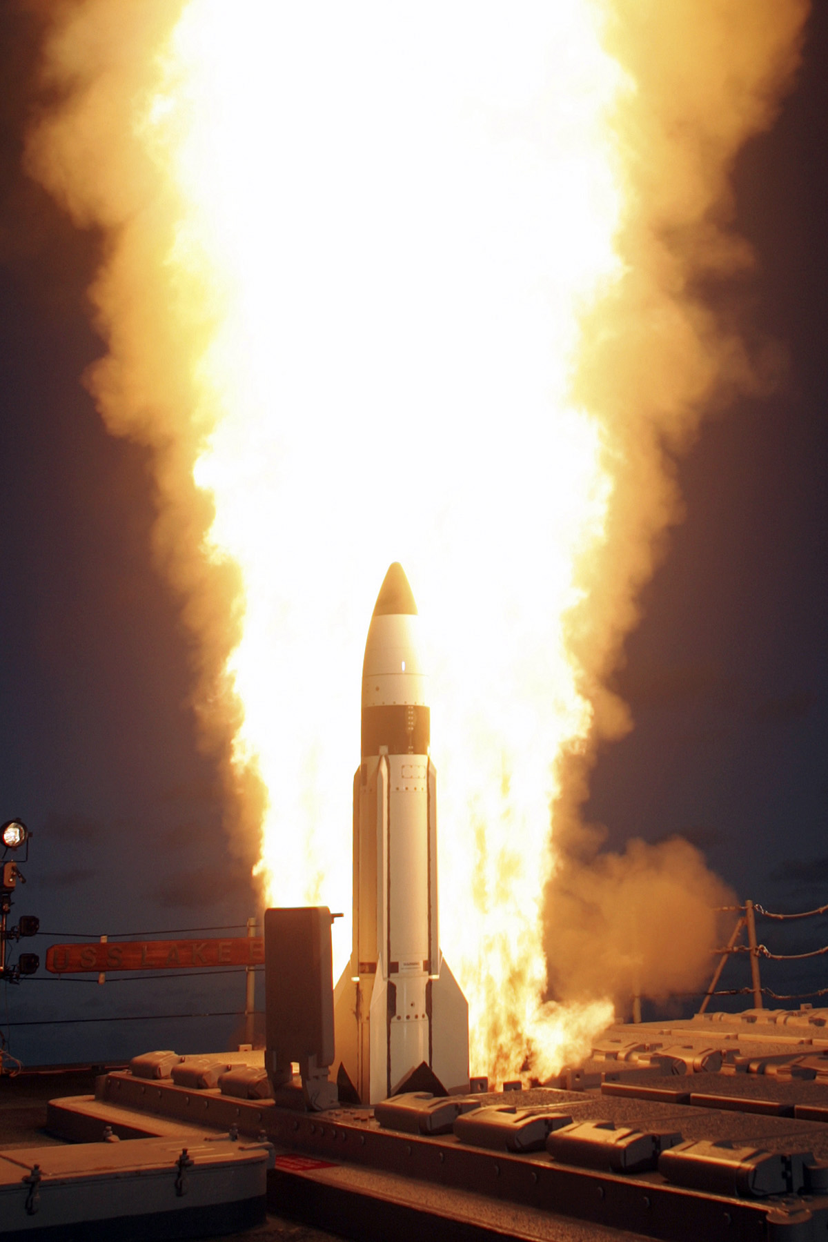 Pacific Ocean (Nov. 17, 2005) - A Standard Missile Three (SM-3) is launched from the vertical launch system (VLS) aboard the Pearl Harbor based Aegis cruiser USS Lake Erie (CG 70), during a joint Missile Defense Agency, U.S. Navy ballistic missile flight test. Minutes later, the SM-3 intercepted a separating ballistic missile threat target, launched form the Pacific Missile Range Facility, Barking Sands, Kauai, Hawaii. The test was the sixth intercept, in seven flight tests, by the Aegis Ballistic Missile Defense, the maritime component of the "Hit to Kill" Ballistic Missile Defense System, being developed by the Missile Defense Agency. All previous Aegis Ballistic Missile Defense flight test were against unitary (non-separating) targets. U.S. Navy photo (RELEASED)